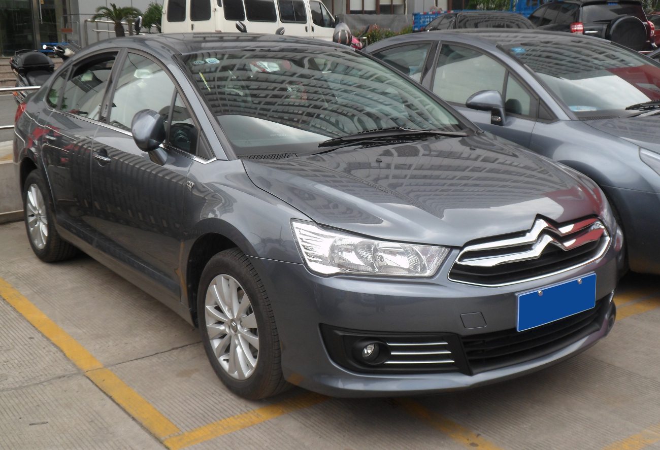 Citroën C-Quatre sedan facelift photographed in Shanghai, China.